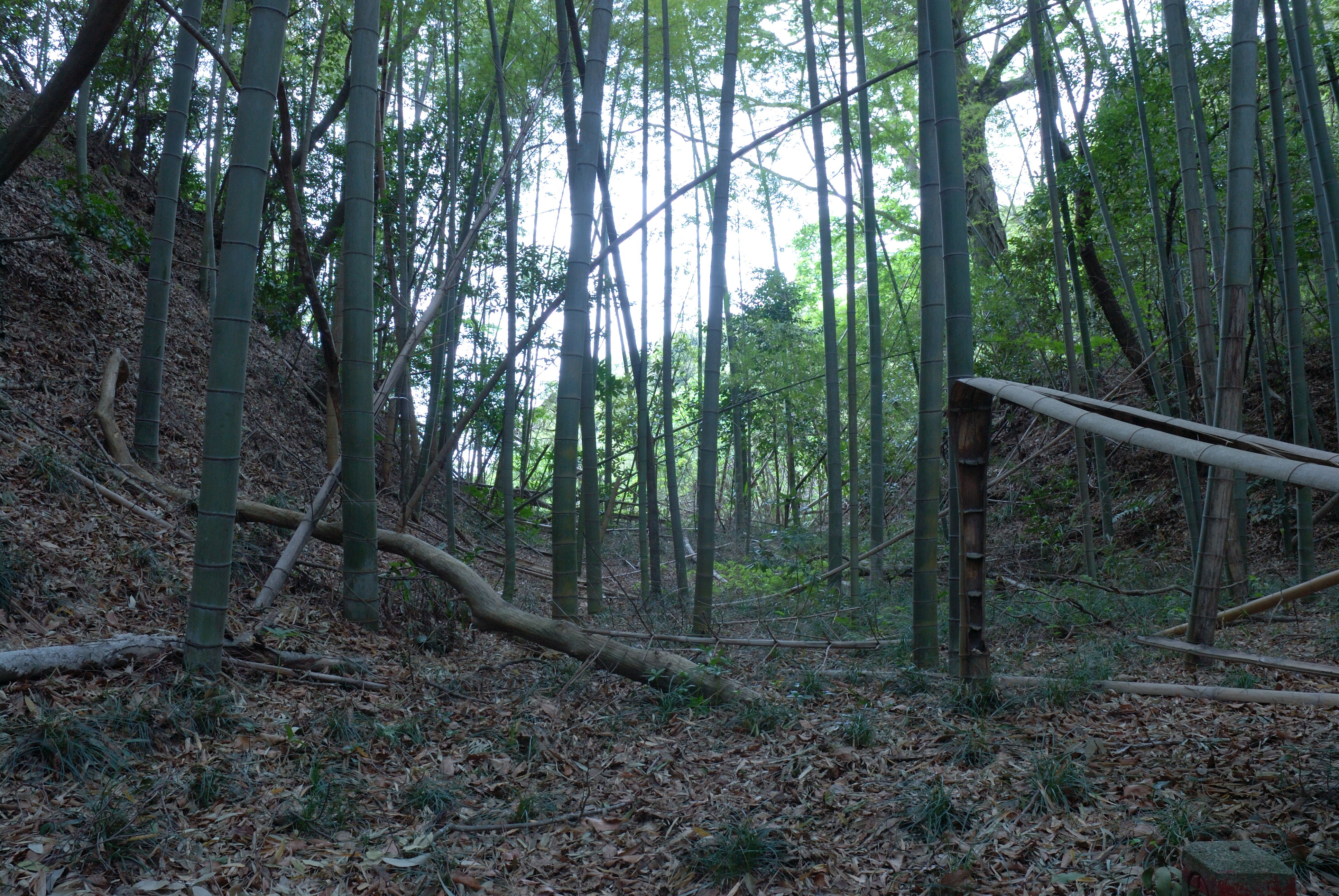 Yonamoto_castle_sannohori.jpg